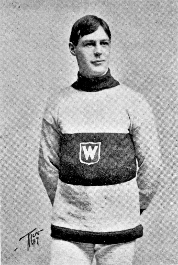 Canadian ice hockey player William Hodgson "Hod" Stuart in a Montreal Wanderers uniform. Hod Stuart died in a diving accident in June 1907. The photograph is from a souvenir booklet from a memorial benefit hockey match in his memory, held at the Montreal Arena January 2, 1908.